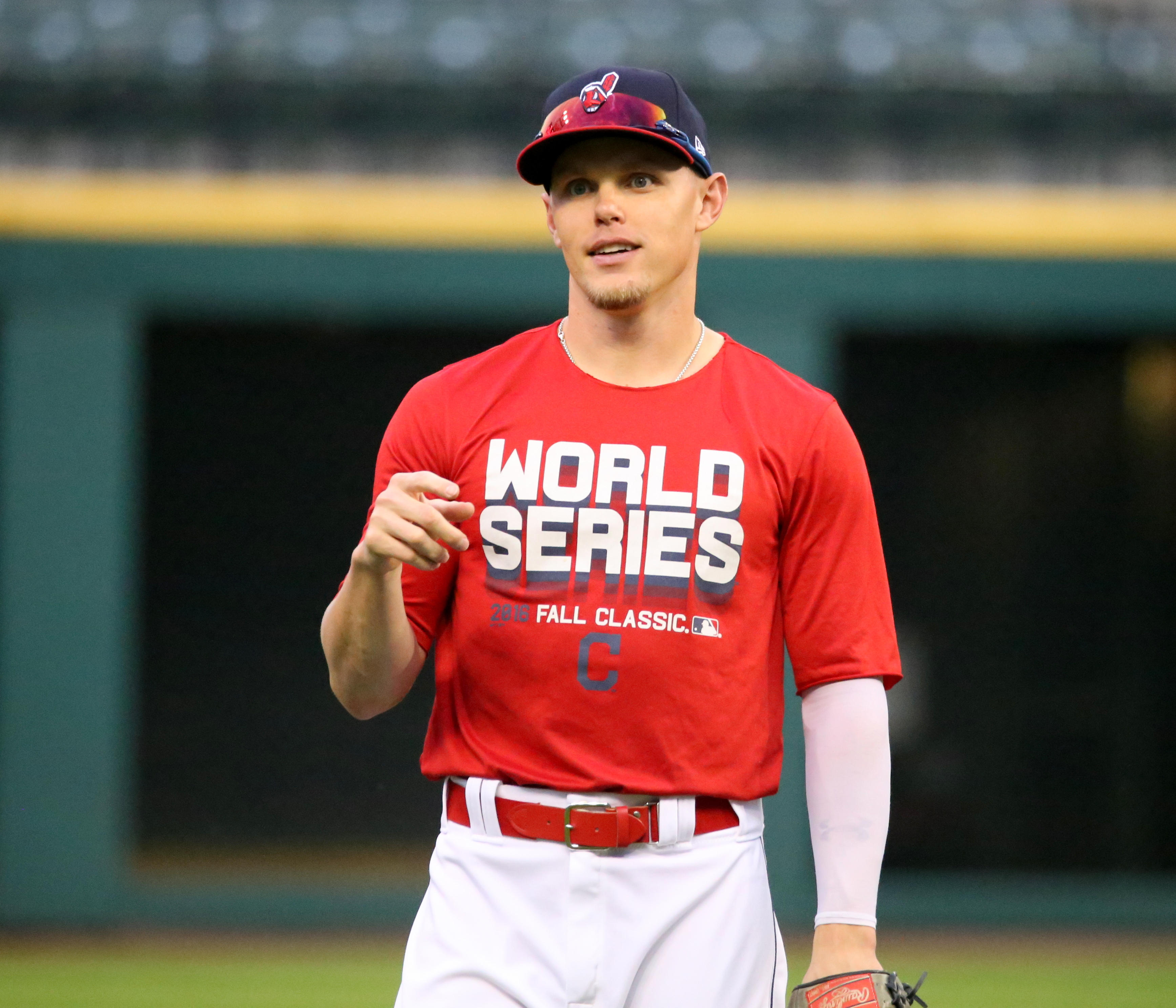 Indians outfielder Brandon Guyer plays catch during Sunday's workout at Progressive Field.